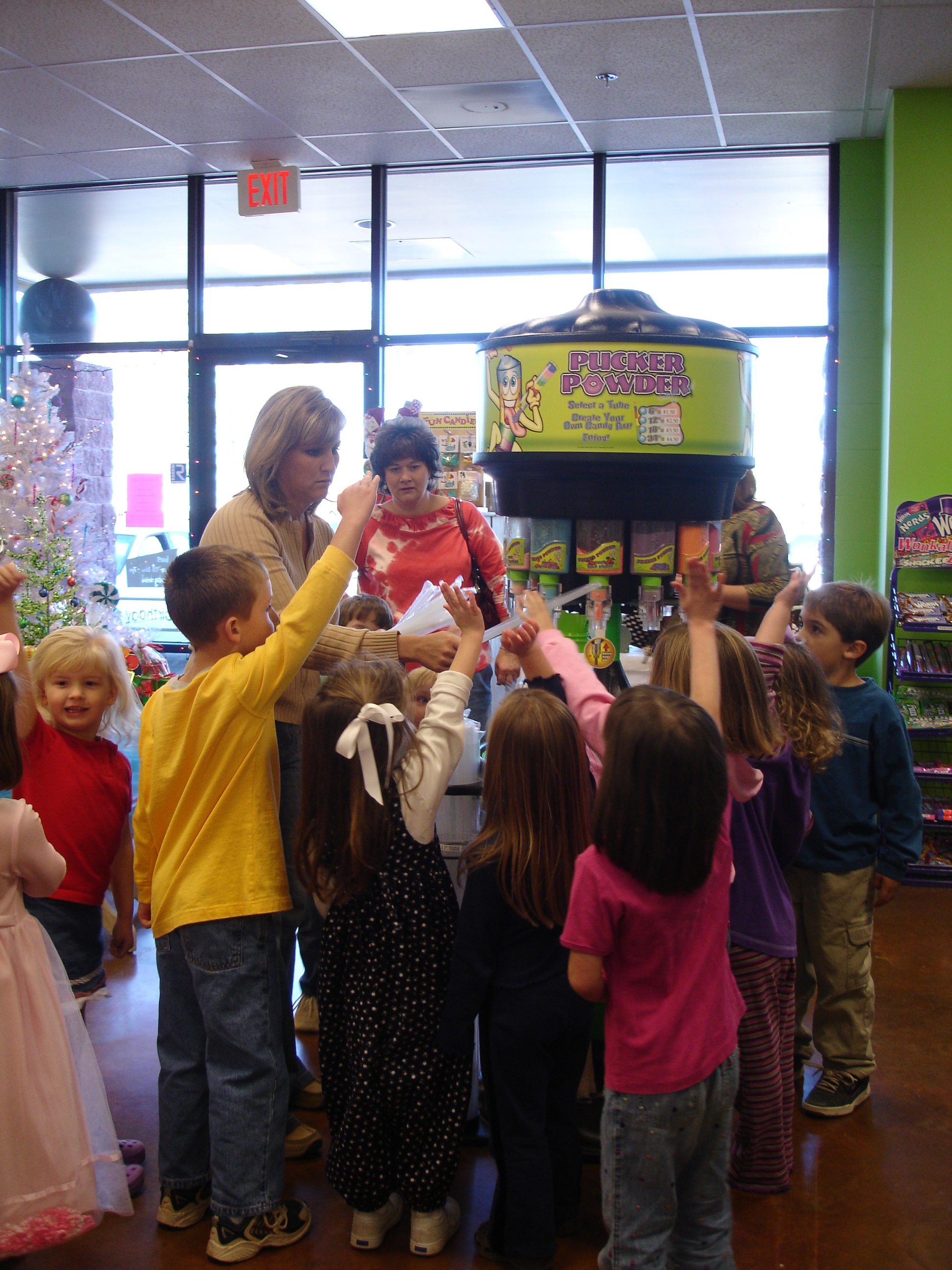 Children at a candy shop.